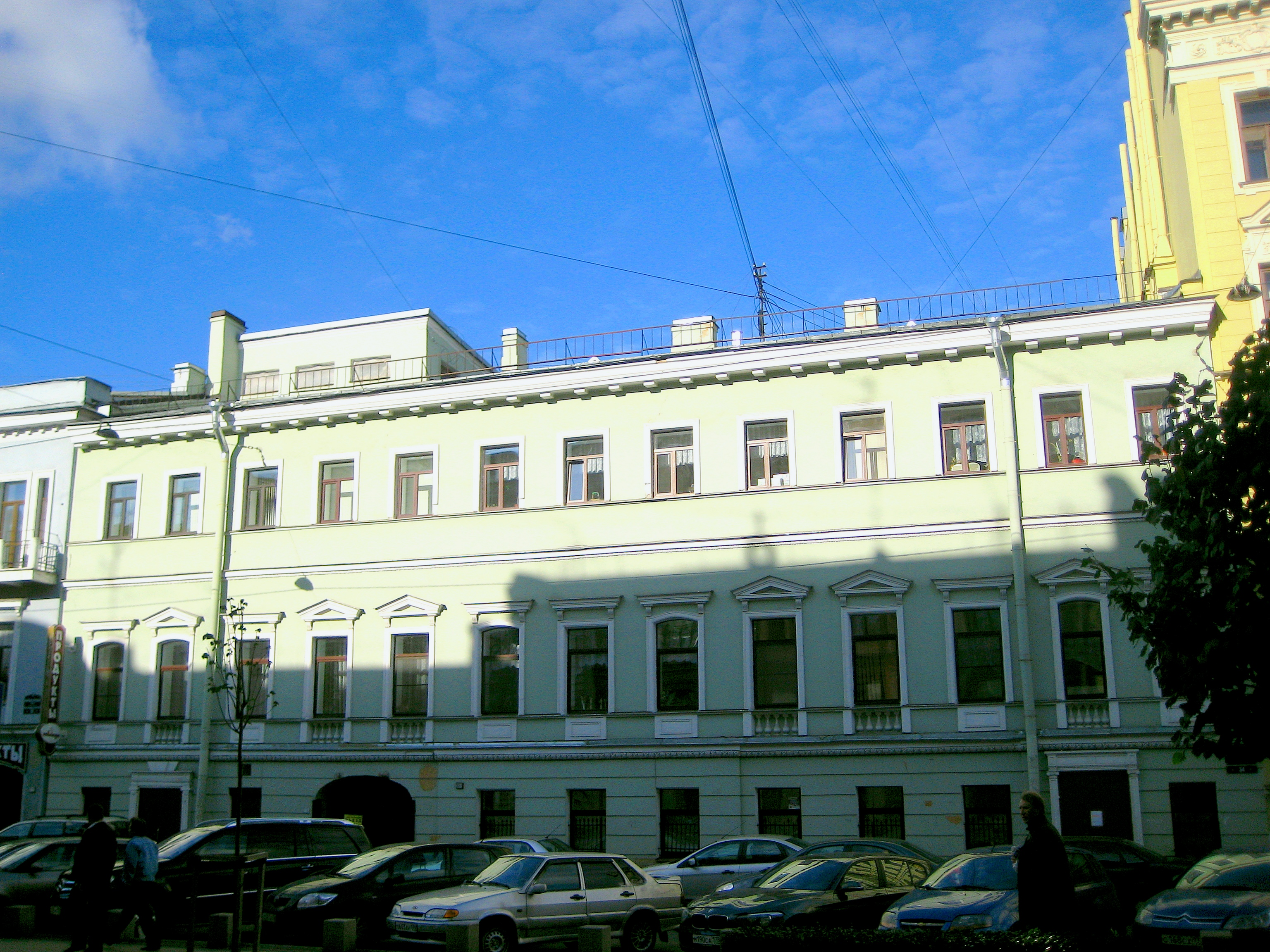 Mansion of A.F. Orlov-Denisov-Nikitin (architect S.V. Lebedev), 1898: Furshtatskaya Street, 34. Tsentralny District, St. Petersburg.